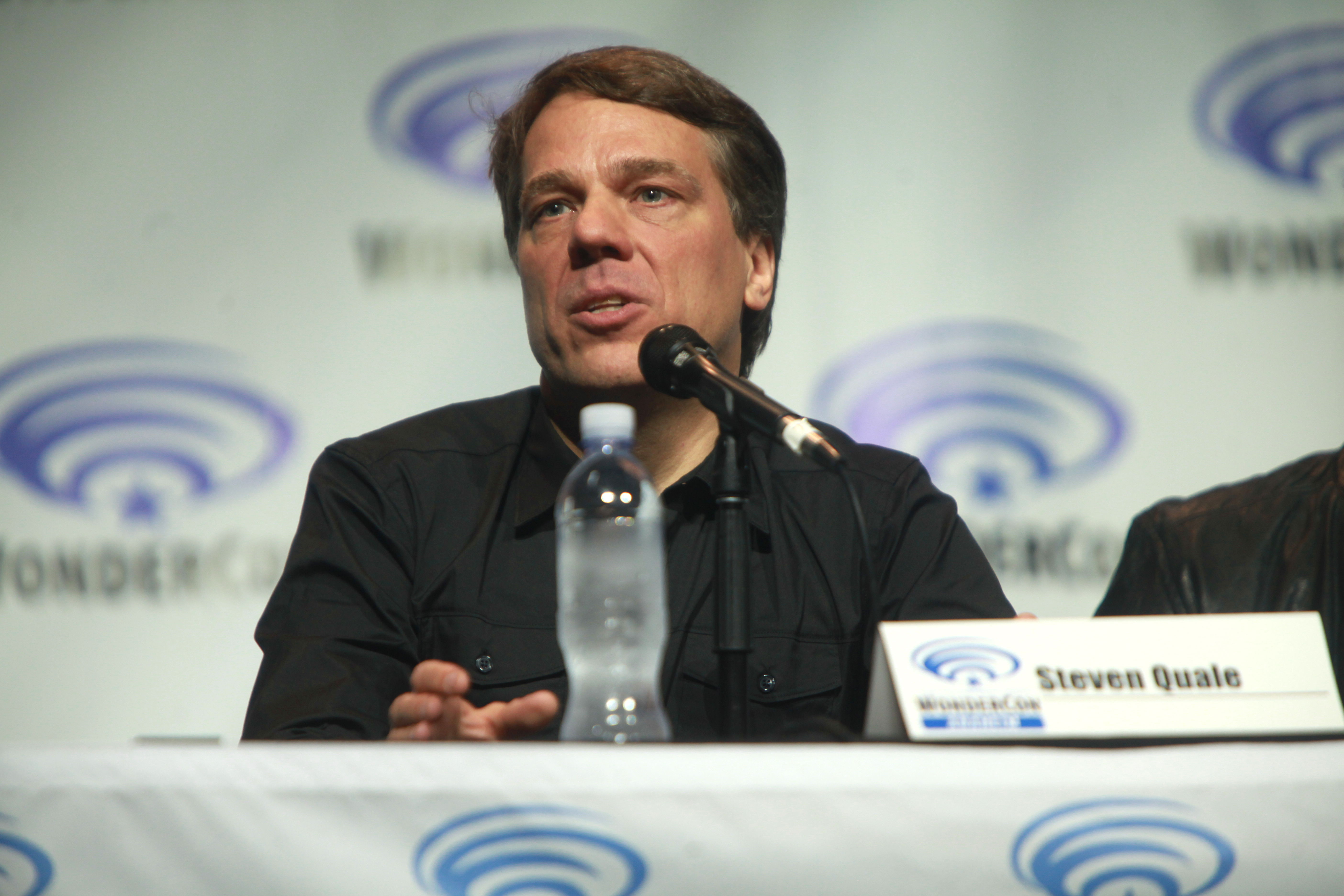 Steven Quale speaking at the 2014 WonderCon, for "Into the Storm", at the Anaheim Convention Center in Anaheim, California.